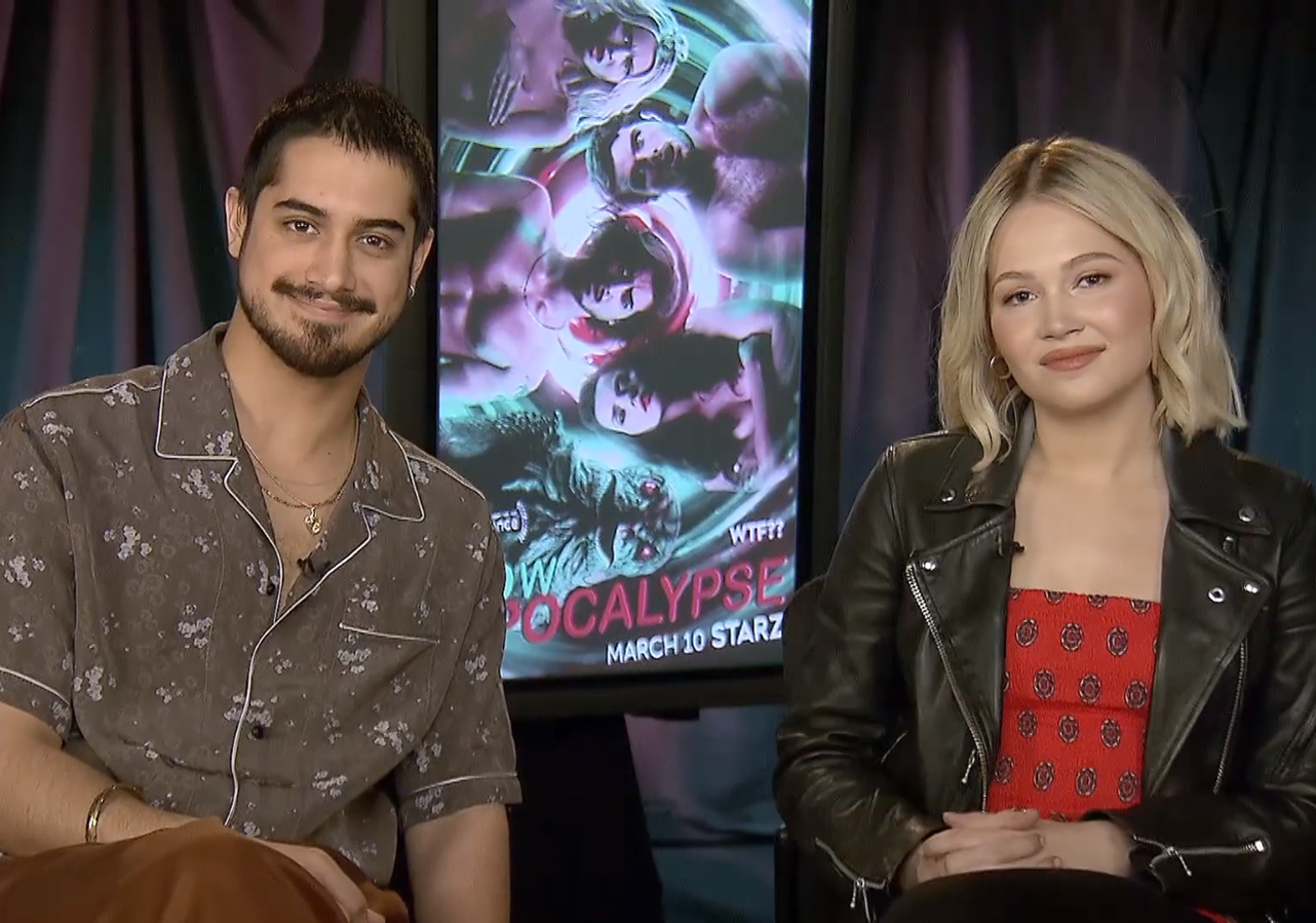 Actors Avan Jogia and Kelli Berglund in March 2019. Screenshot (@5:33) from interview on Valder Beebe Show. Image has been slightly cropped.